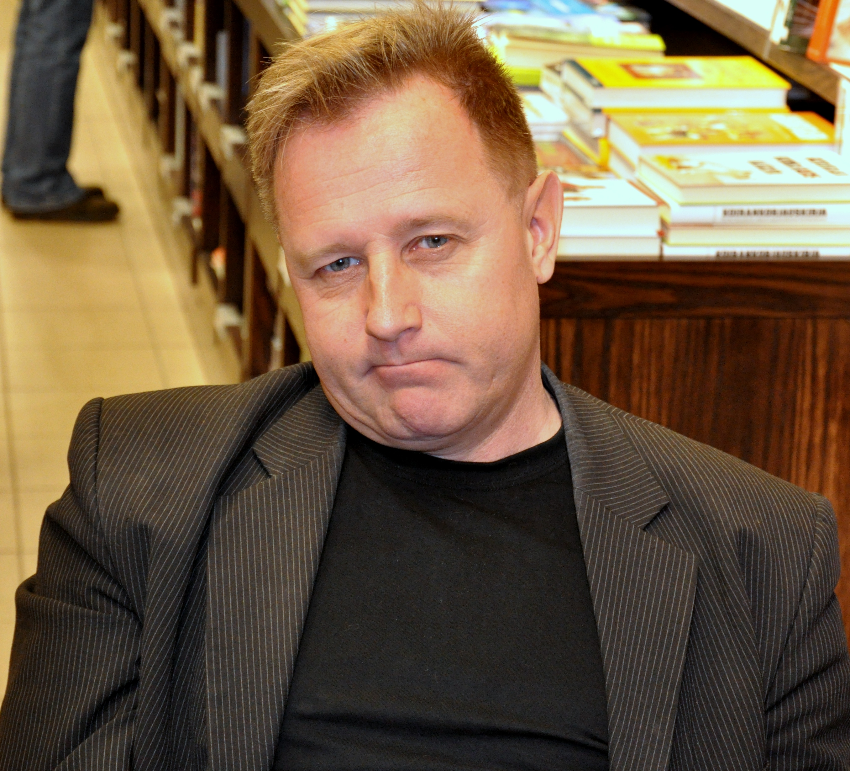 Finnish crime writer Reijo Mäki at the Academic Book Store in Turku 2009.